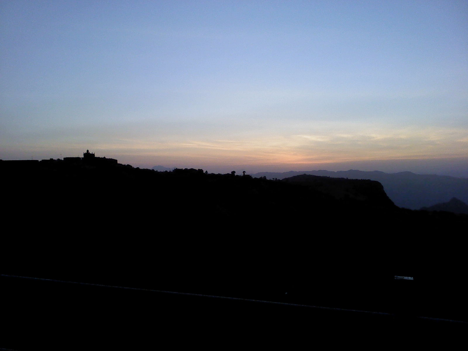 Dawn at Raigad fort